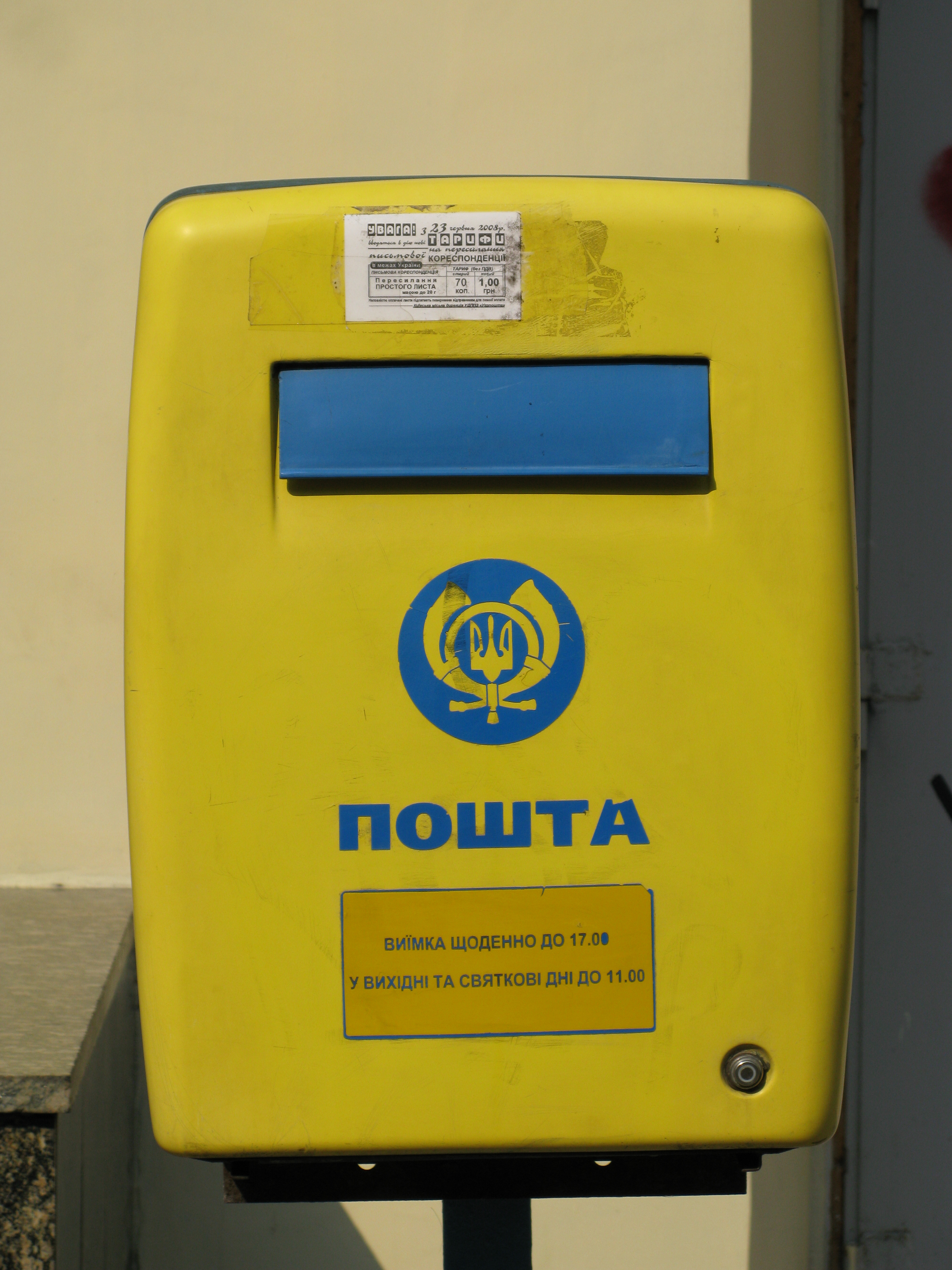 Post box in Kyiv, Ukraine